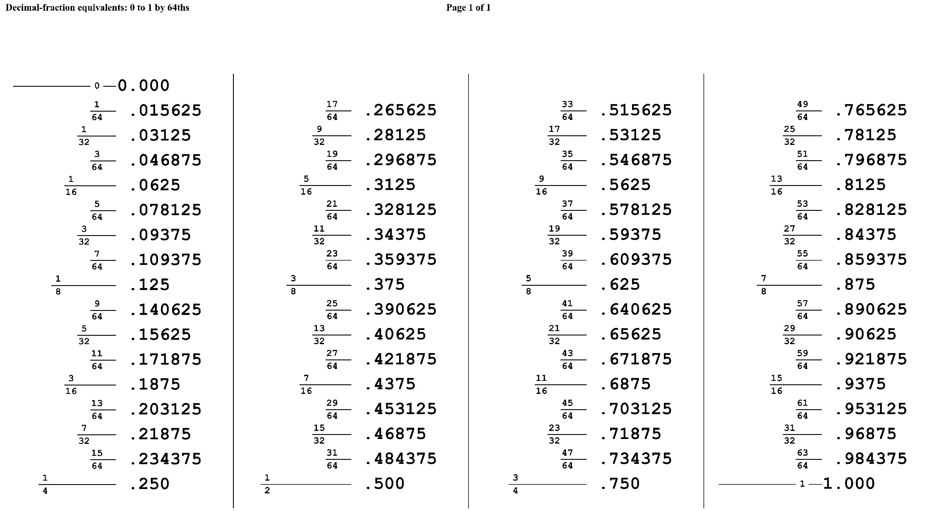 A handy chart of decimal-fraction equivalents, 0 to 1 by 64ths. Prints nicely as 11x17 in landscape orientation. Useful for machinists who work with inch-based measurements.